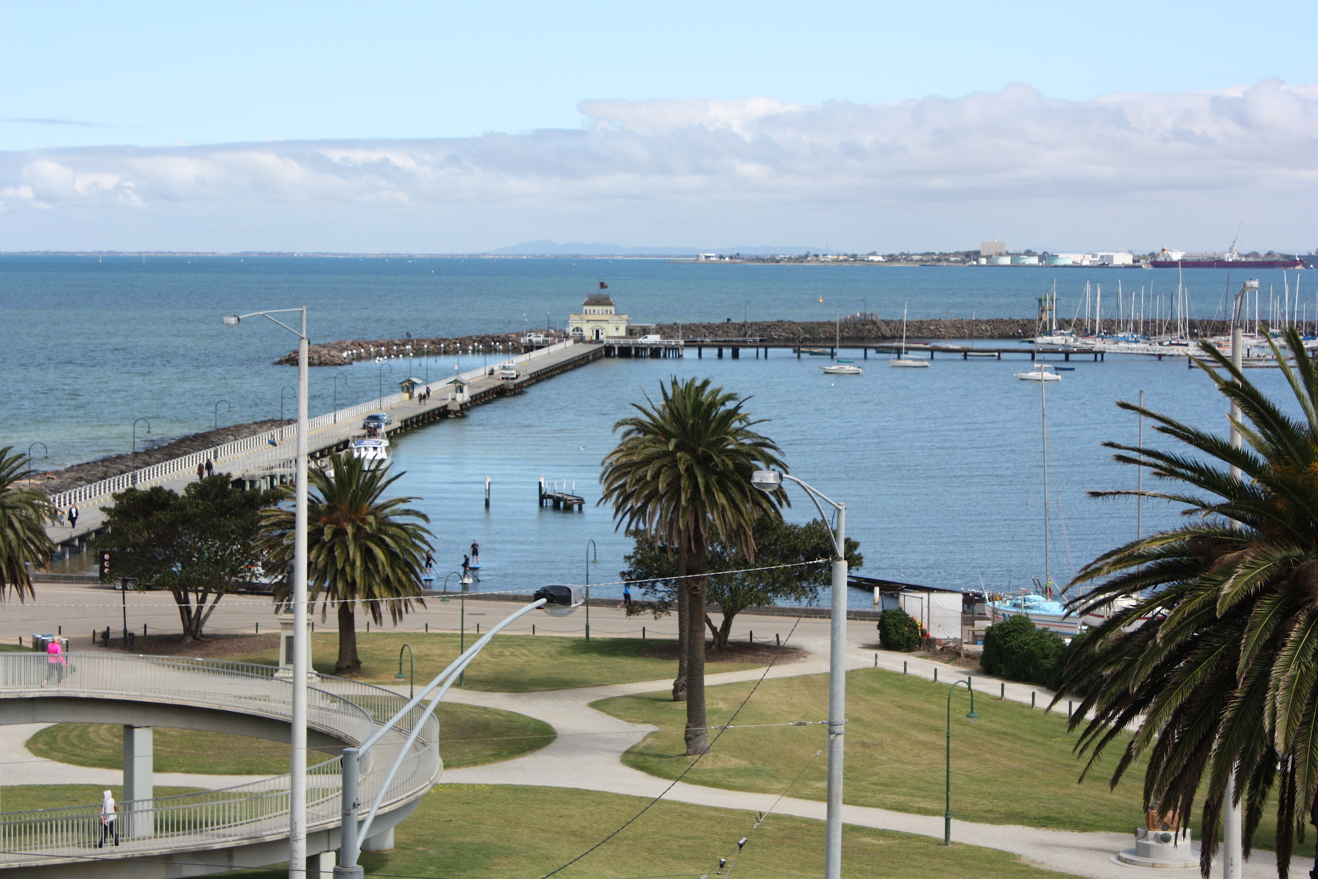 St Kilda Pier and Kiosk with Catani Gardens in foreground